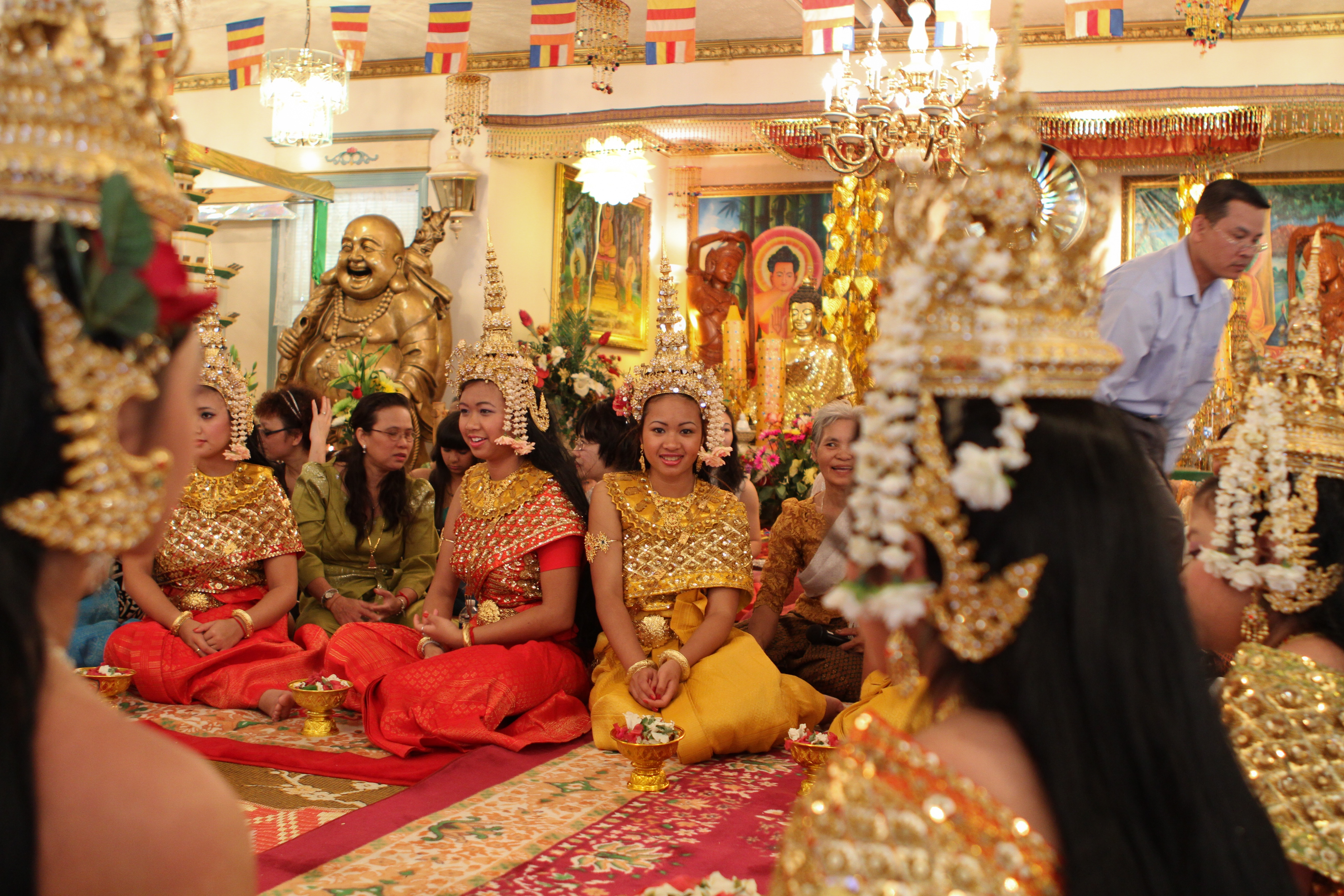 A Khmer New Year celebration takes place inside a Buddhist pagoda in Lithonia, GA.